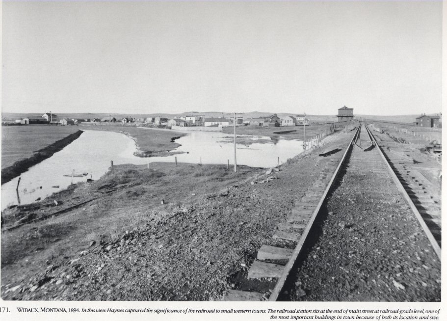 Northern Pacific Railway tracks into Wibaux, Montana, 1894 photo by Frank Jay Haynes